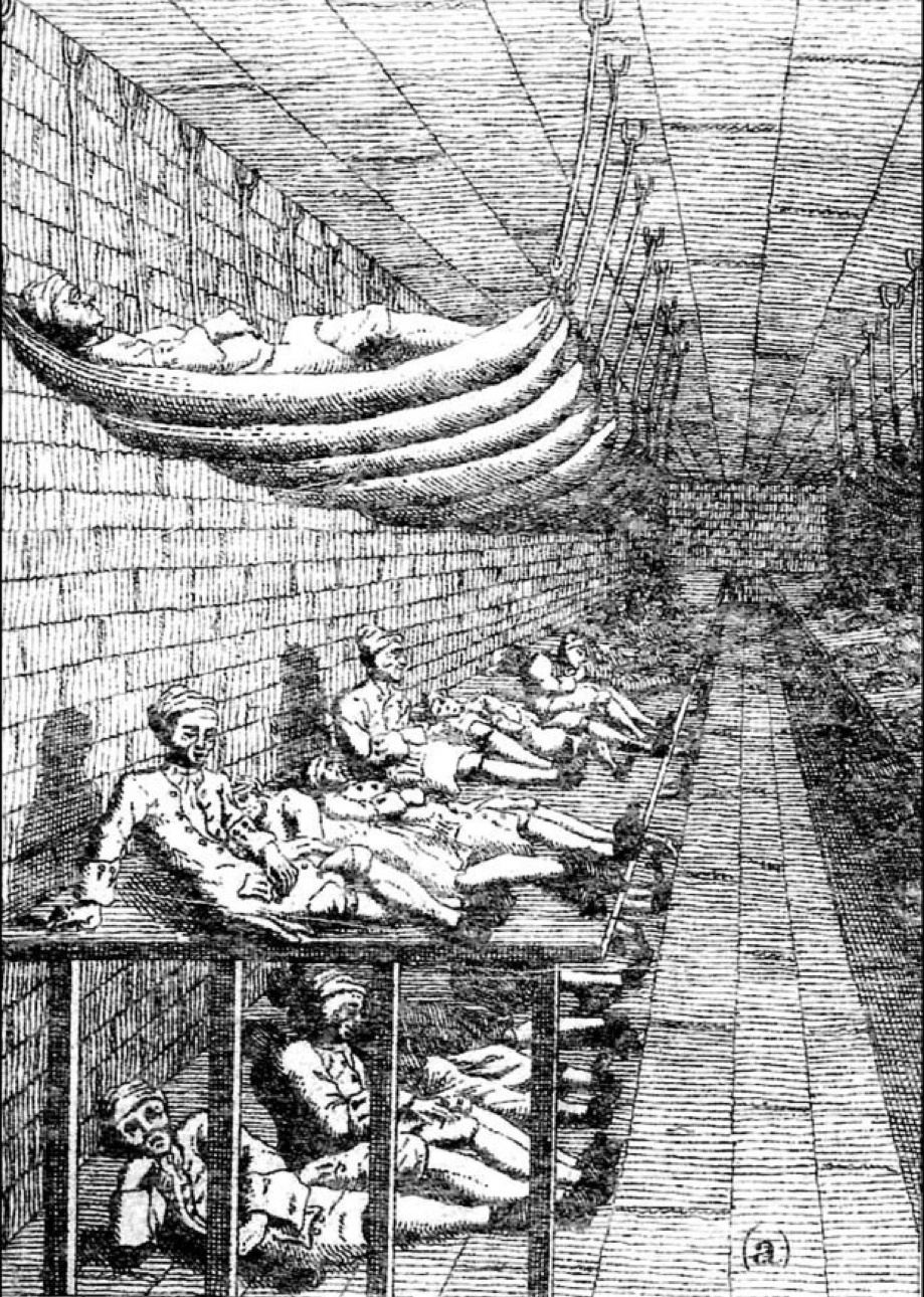 The sick men's ward in the Marshalsea prison, London, 1729.